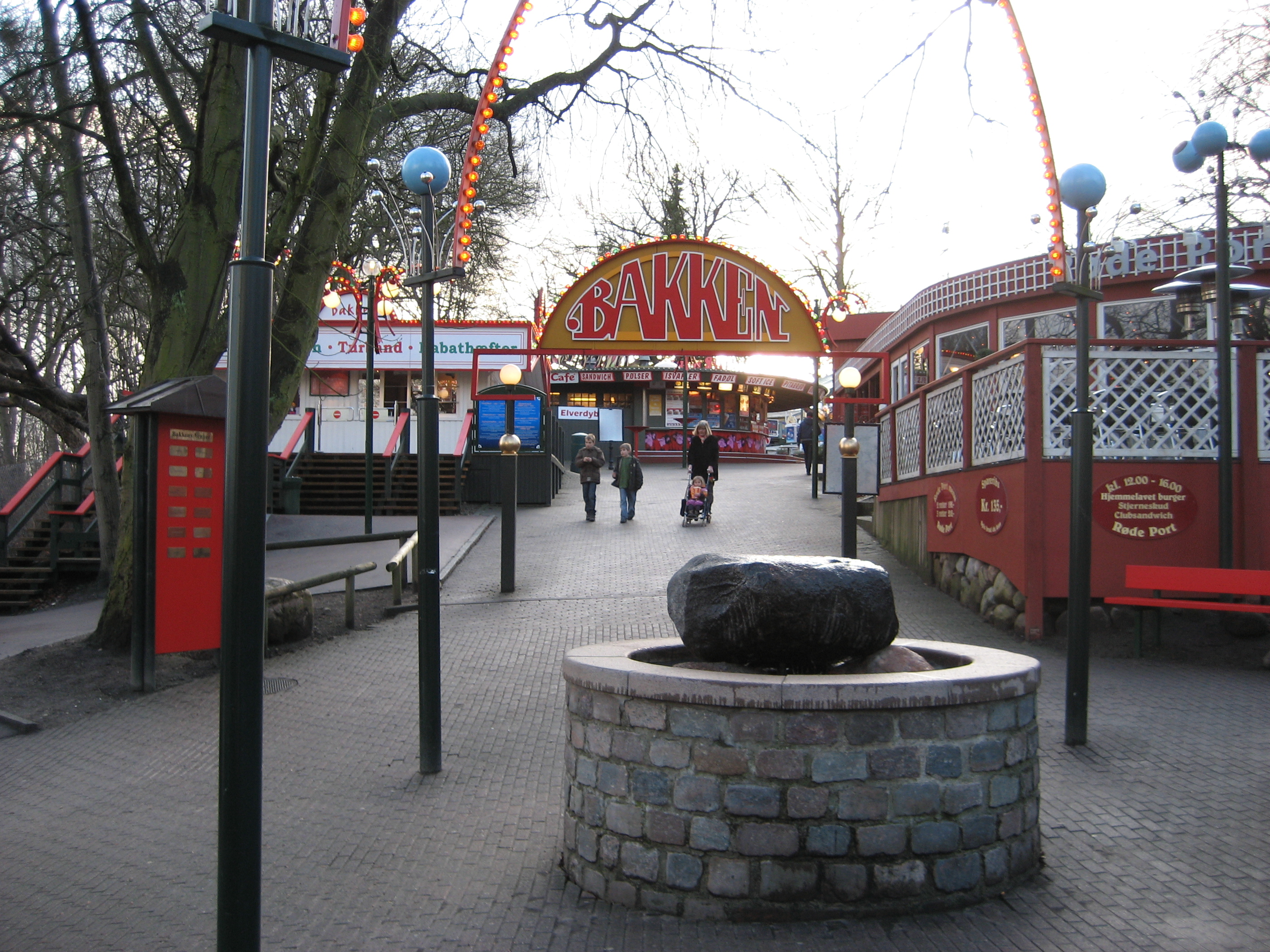 Entrance of Dyrehavsbakken, or Bakken, the oldest operating amusement park in the world, located in Denmark.